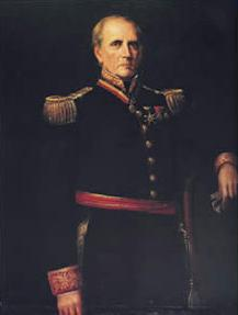 Portrait of Carlos Soublette.